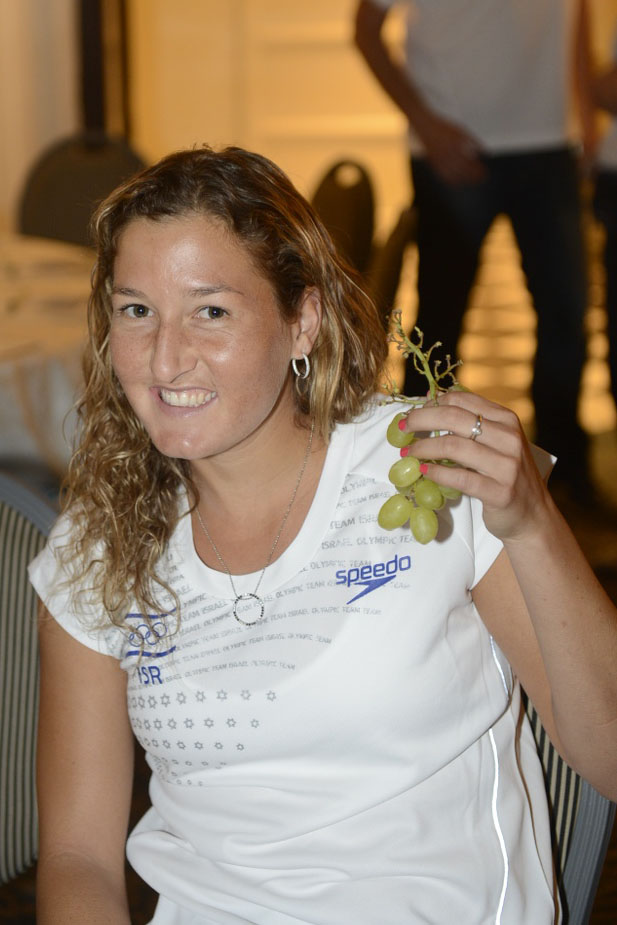 Shahar Peer, July 2012